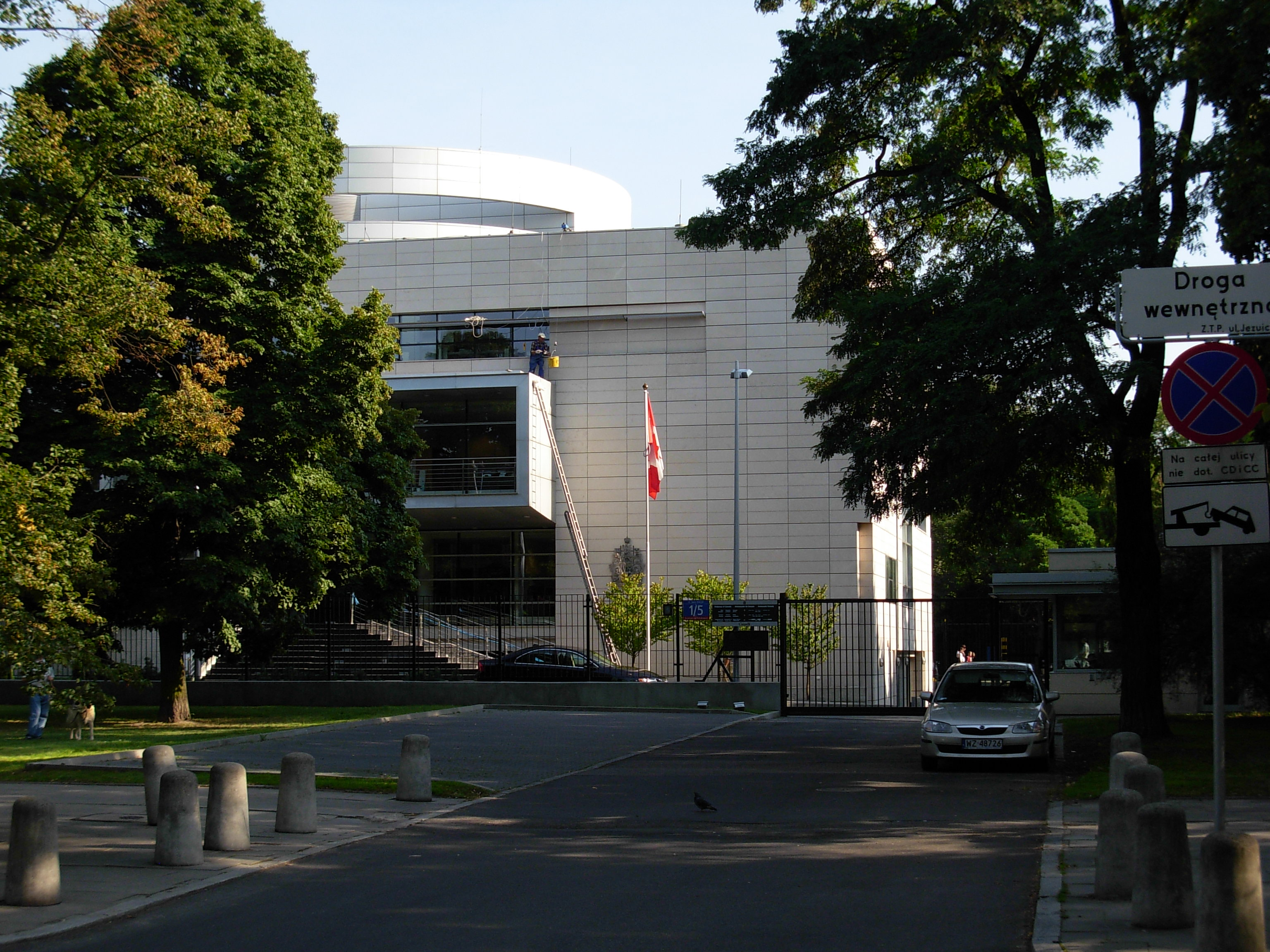 Embassy of Canada in Warsaw